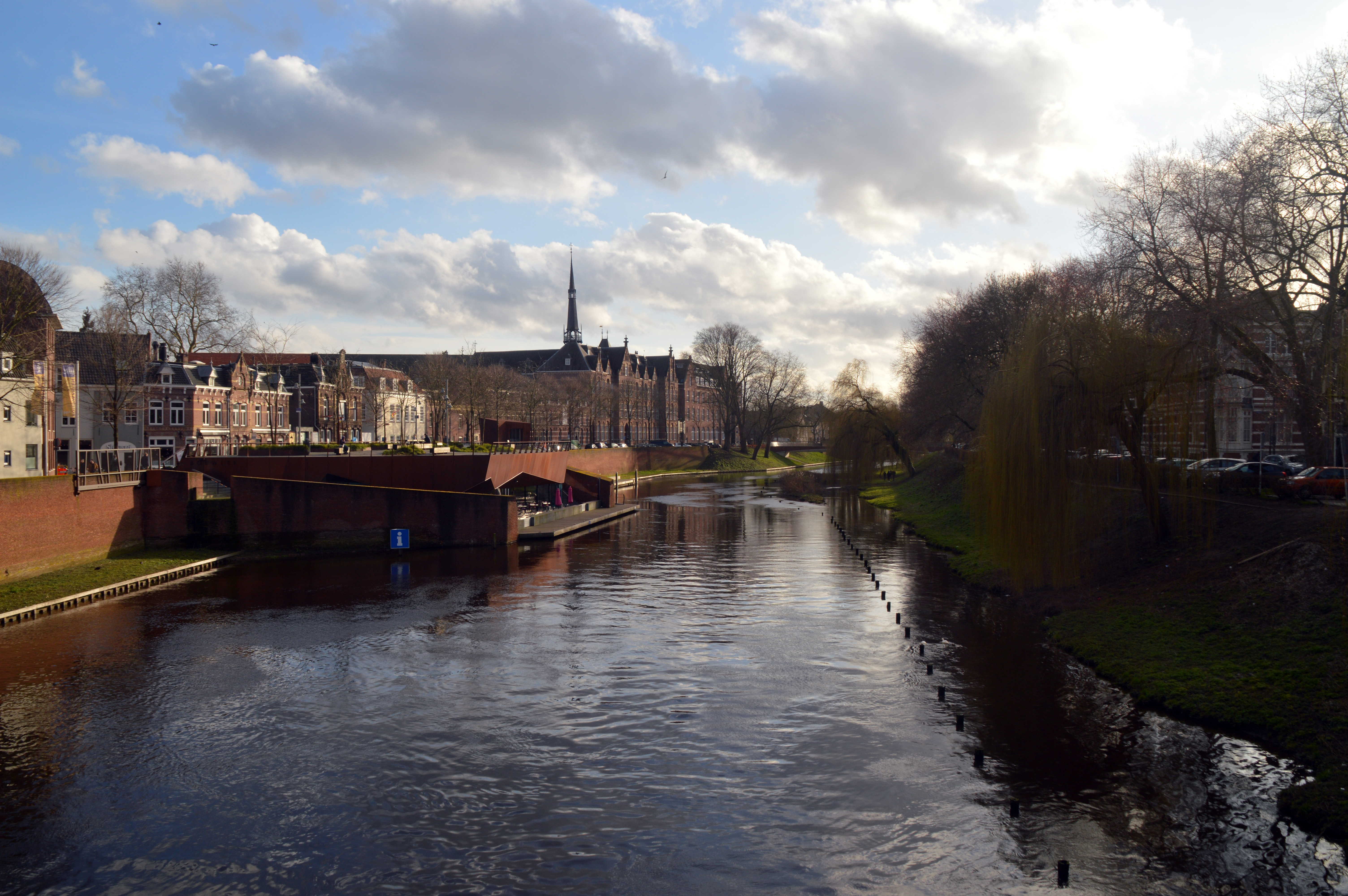 River De Dommel from Stationsweg towards Mariabrug. In the background the Jheronimus Academy of Data Science University. 's-Hertogenbosch.